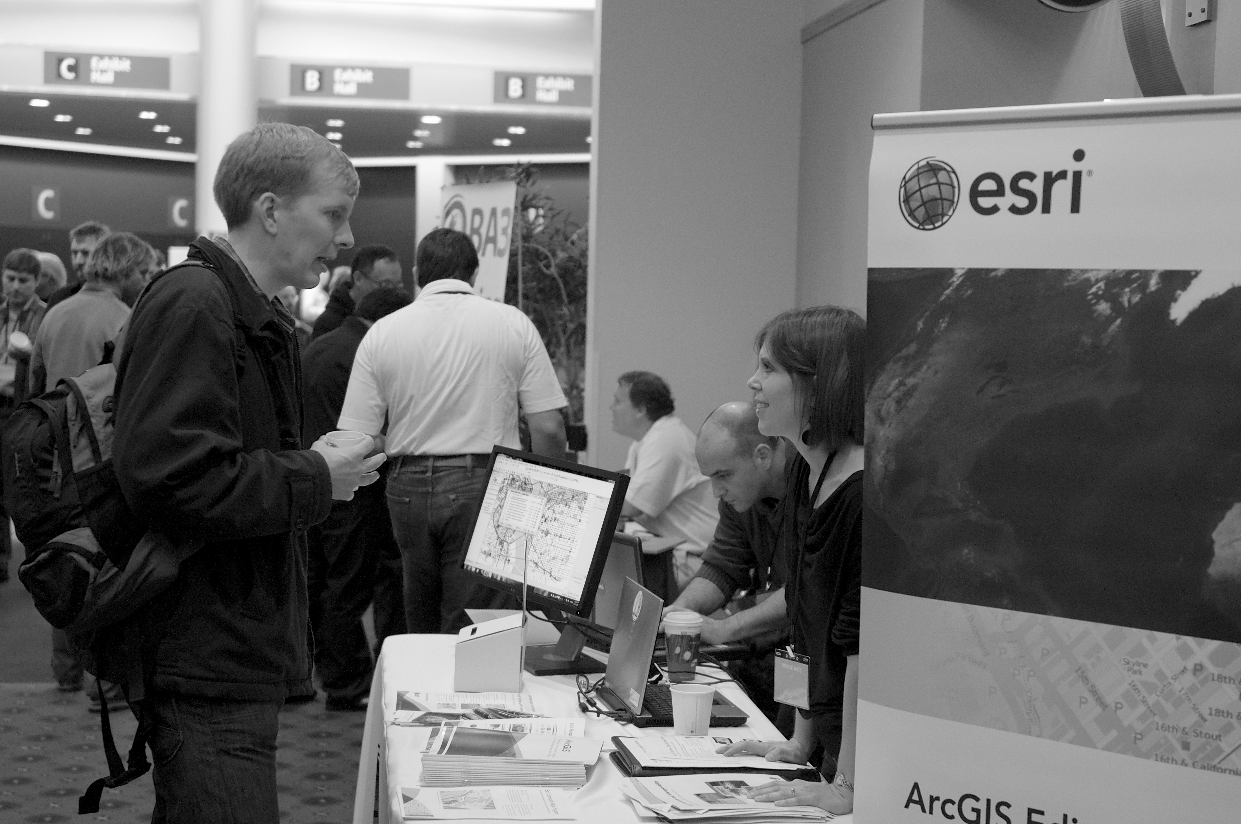 State of the Map US 2012